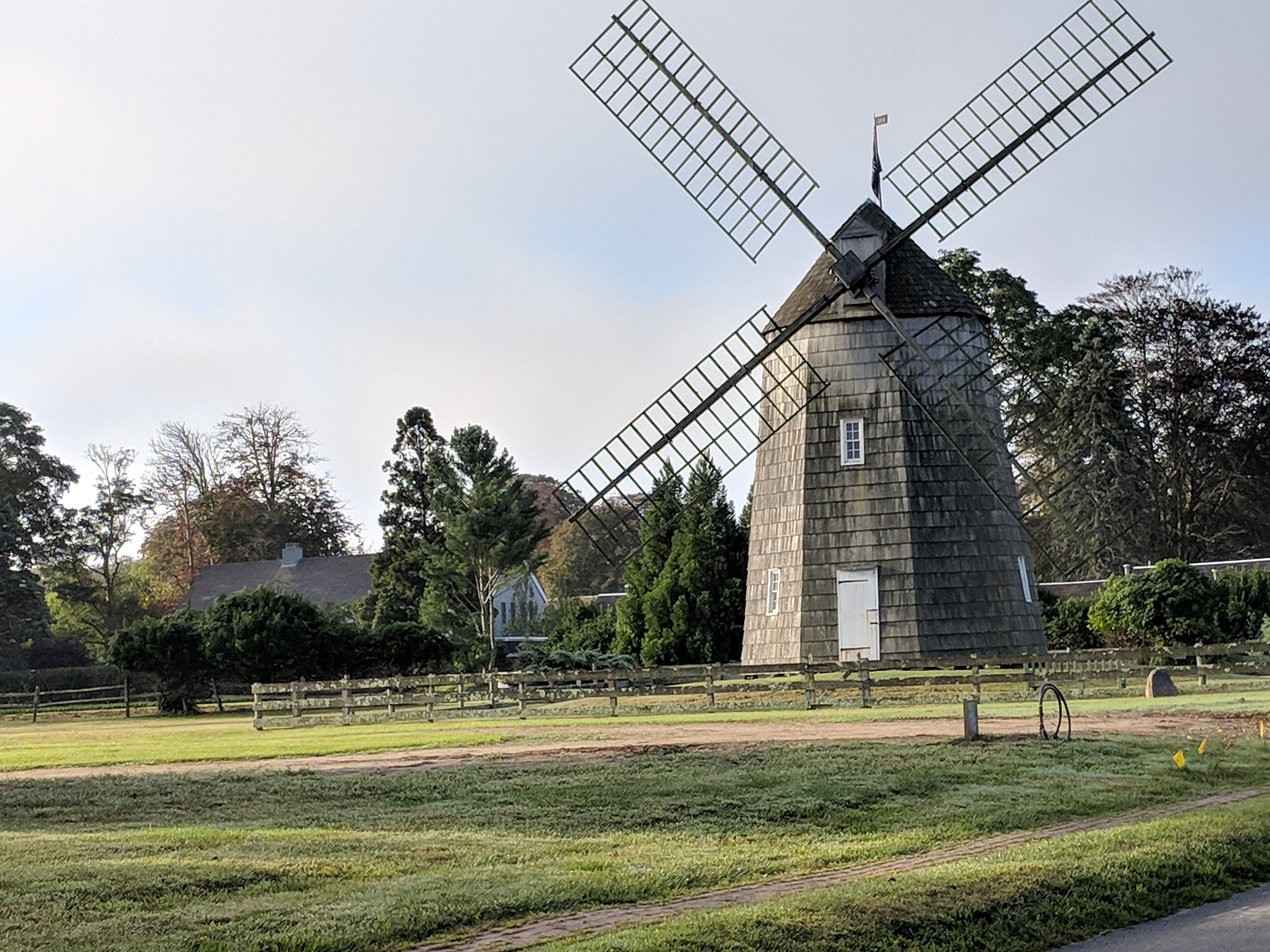 Gardiner Mill is across James lane from South End graveyard, where Lion Gardiner is buried. A re-constructed Saltbox home is next door.